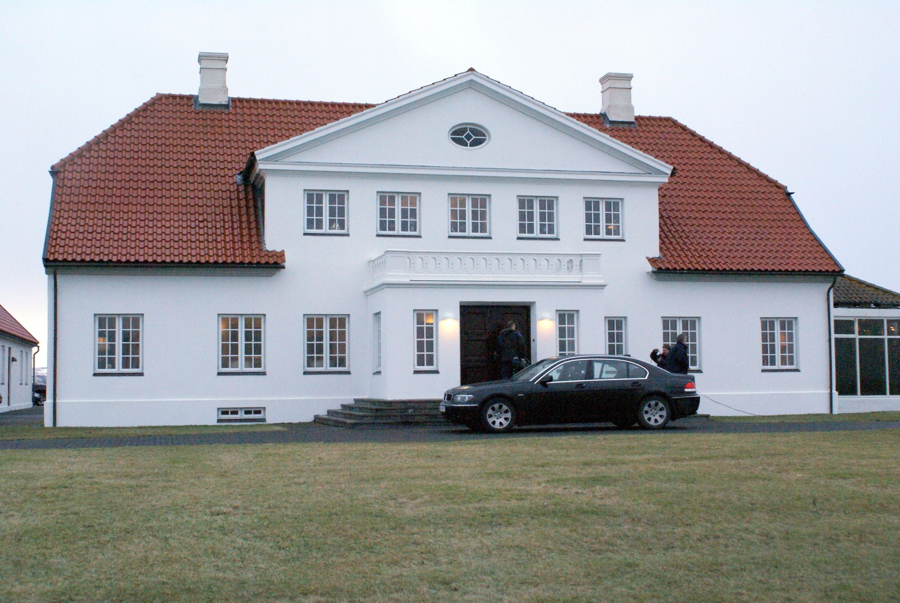 Bessastaðir, Álftanes Location: 64°06'21N 21°59'44W Bessastaðir is the official residence of the President of Iceland and is situated on Álftanes, not far from the capital city, Reykjavík. Álftanes is a low-lying peninsula which extrudes from the eastern part of Reykjanes, located in Iceland's Greater Reykjavík Area. Álftanes has a population of 2,455 as of July 1, 2008 census.